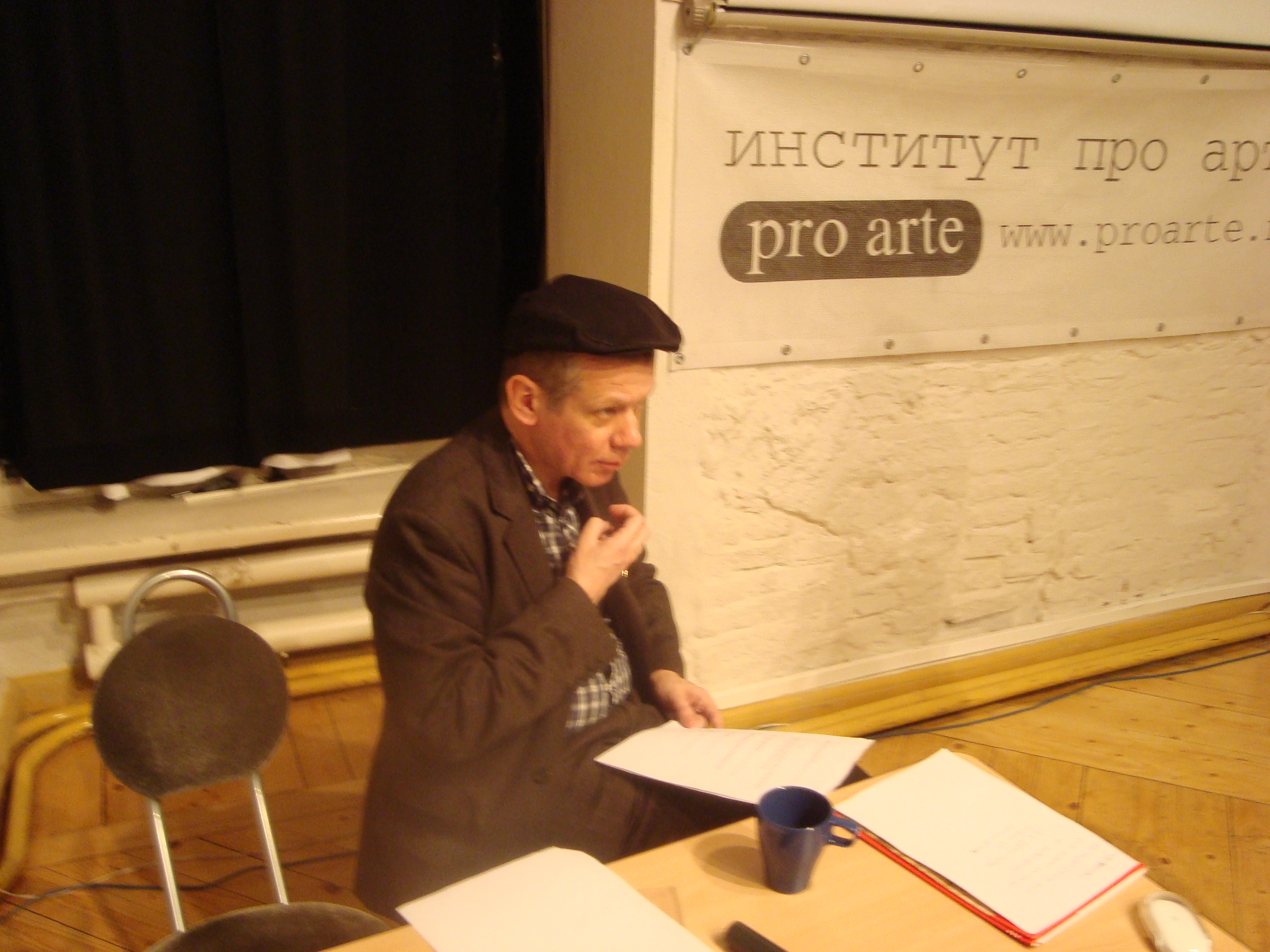 Richard Barbrook delivering a lecture at the Pro Arte Institute, November 2008